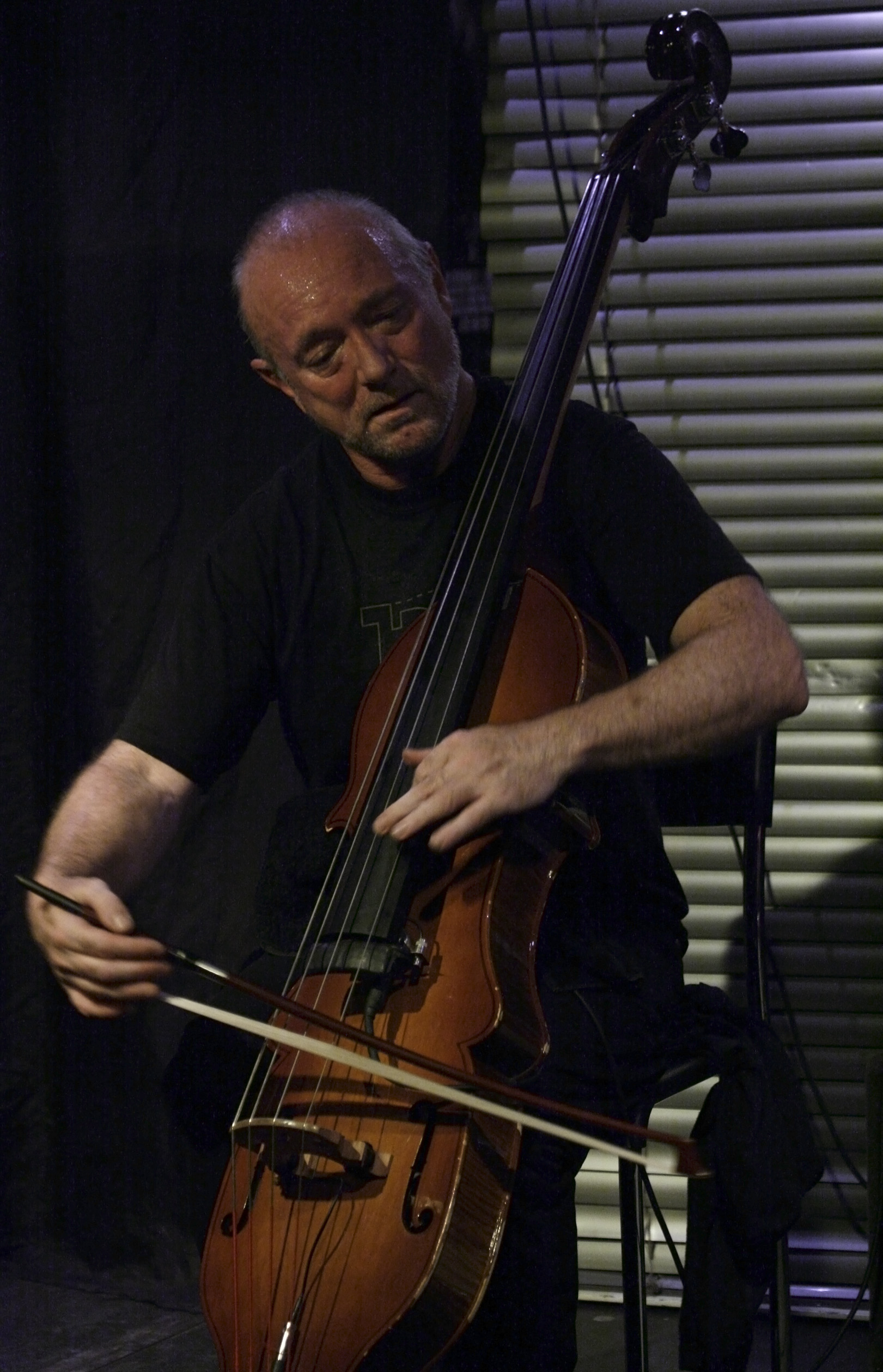 Lisle Ellis during a session with Andy Manndorff (g.) and Wolfgang Reisinger (dr.) at the Blue Tomato in Vienna (Austria).